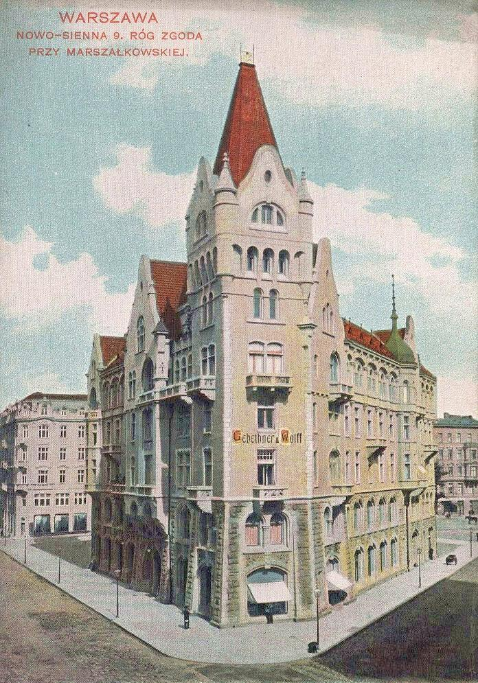 Warsaw Nowo-Sienna 9 Street. Zgoda corner at Marszałkowska. Bookstore and music notes store of Gebethner and Wolff.